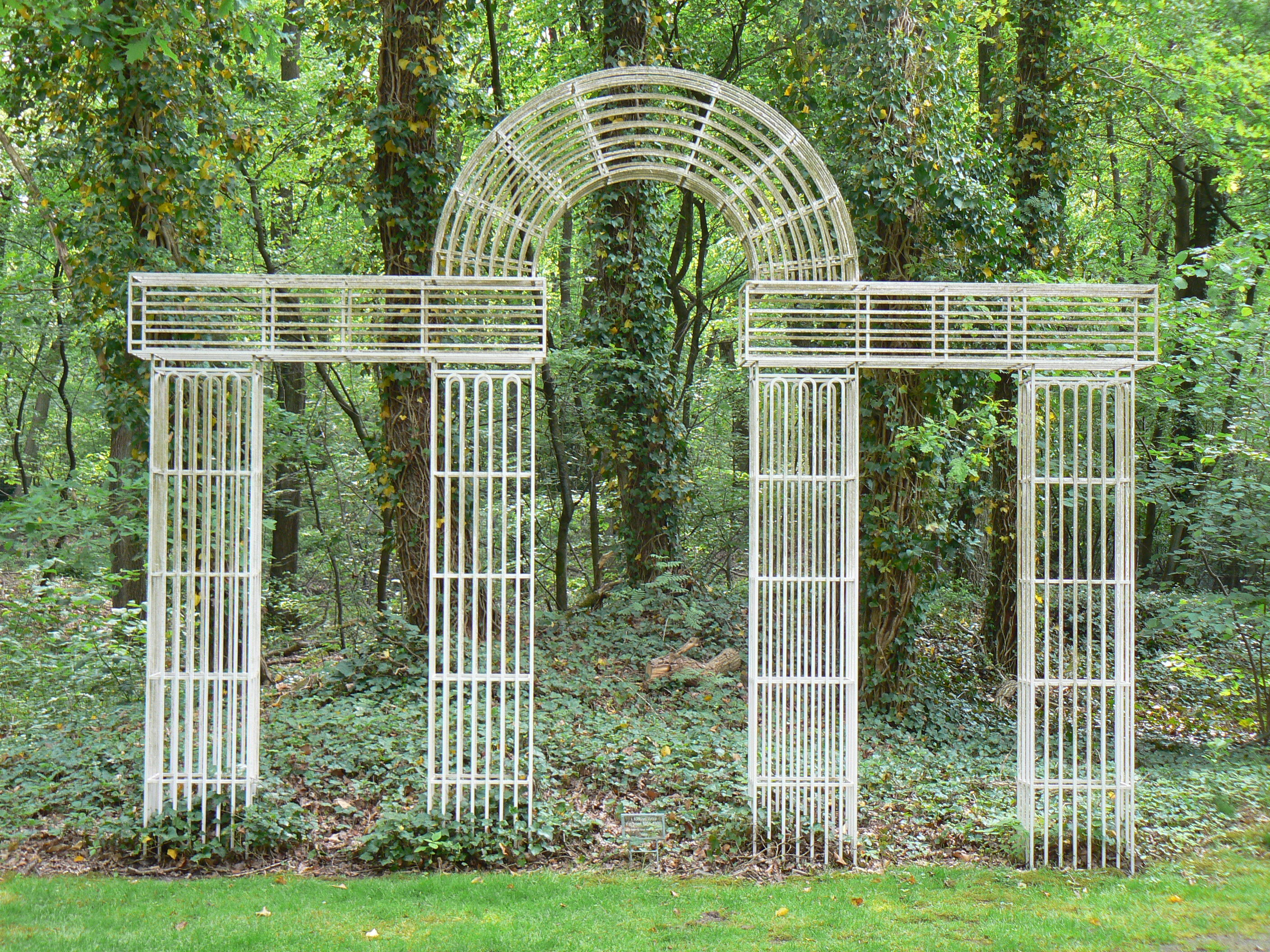 sculpture/installation (3-parts) The twenty-four men in white (1988) by Fortuyn/O'Brien in sculpturepark KMM/The Netherlands